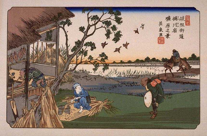 Okegawa on the Kisokaido, ukiyo-e prints by Keisai Eisen